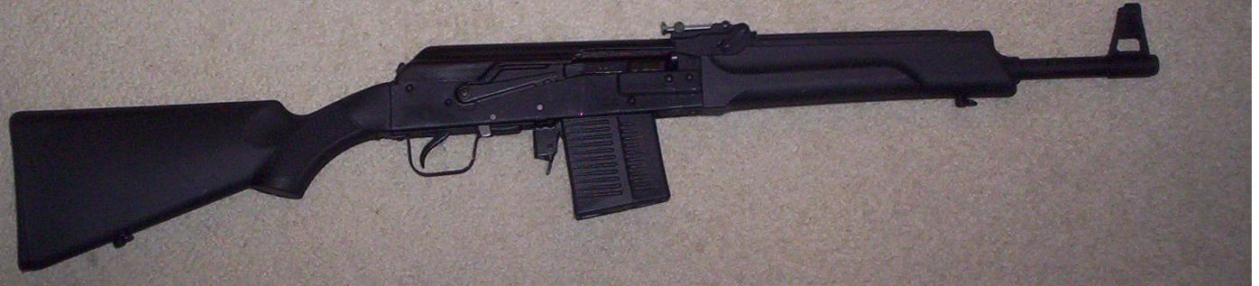 Saiga-308 semi-automatic rifle with synthetic stock.